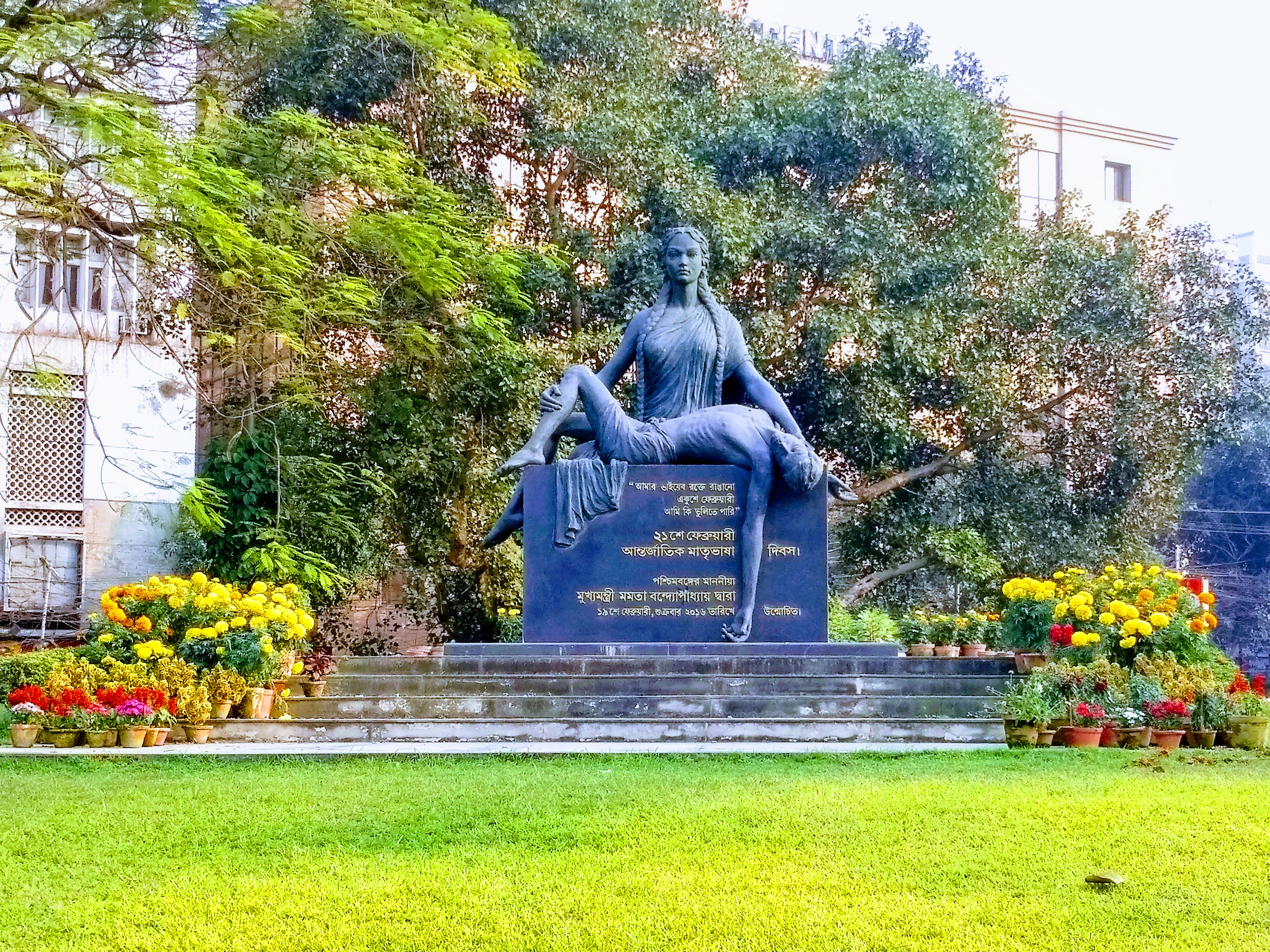 কোলকাতা ভাষা শহীদ মিনার